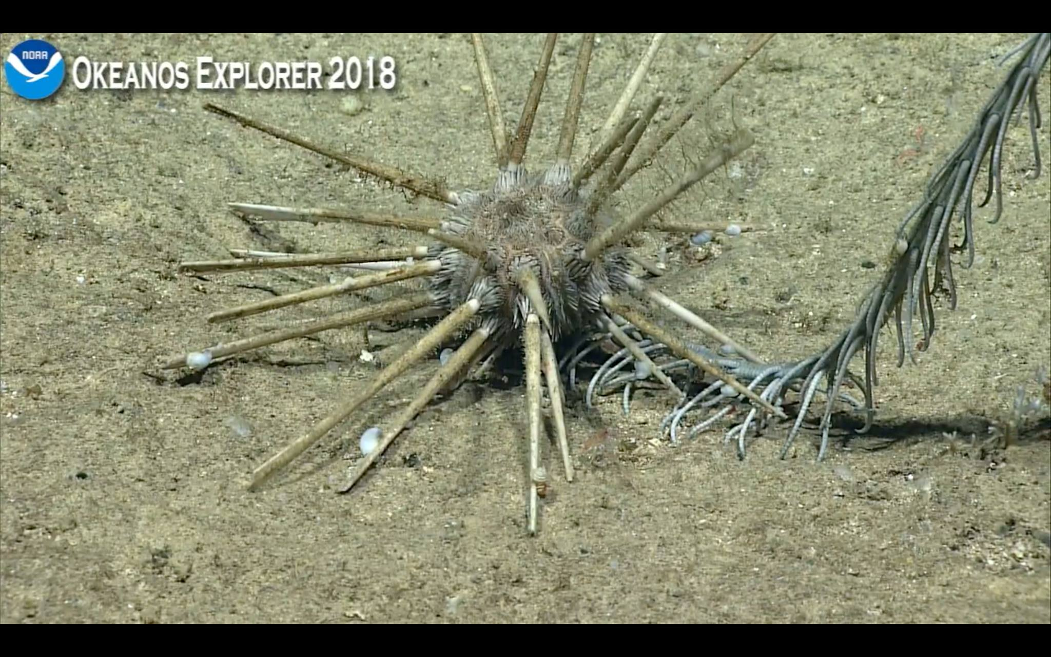 Predation on a stalked crinoid (Endoxocrinus sp.) by a deep-sea cidaroid sea urchin. Seen off Puerto Rico by NOAA Okeanos Explorer.